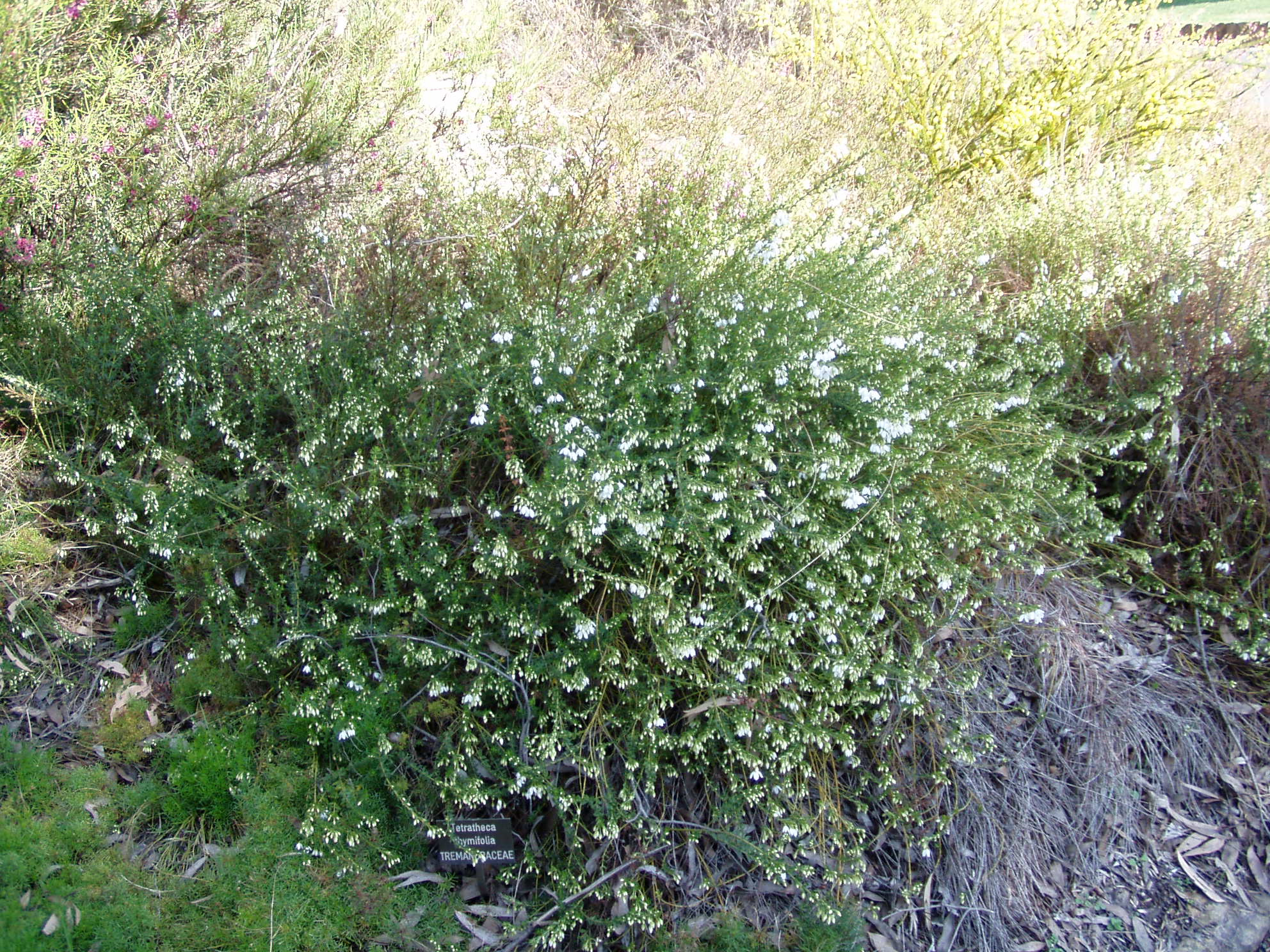 Description: Tetratheca thymifolia Location: Australian National Botanic Gardens, Canberra, Australian Capital Territory, Australia Date: 2005-09-21 Source: picture taken by Danielle Langlois Licence: Released under GFDL and Creative Commons licenses by the photographer